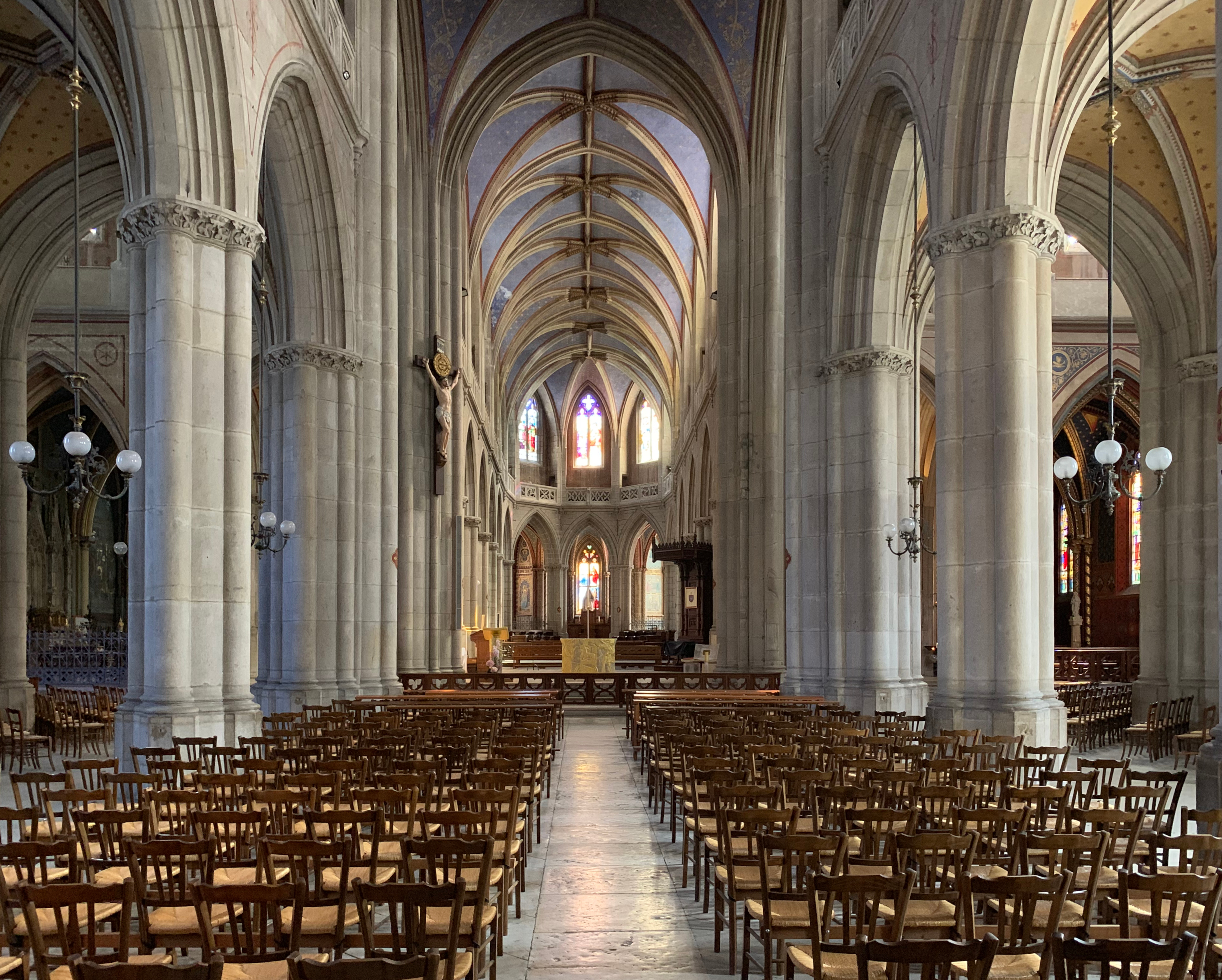 Interior of cathédrale Saint-Jean de Belley.